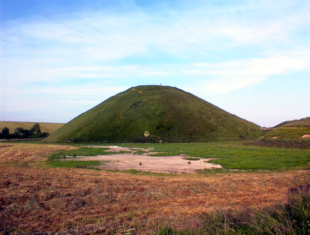 Silbury Hill. The largest man-made earthwork in Europe, and no-one knows what it was built for! Sadly dilapidated now, and sorely in need of attention - for details.